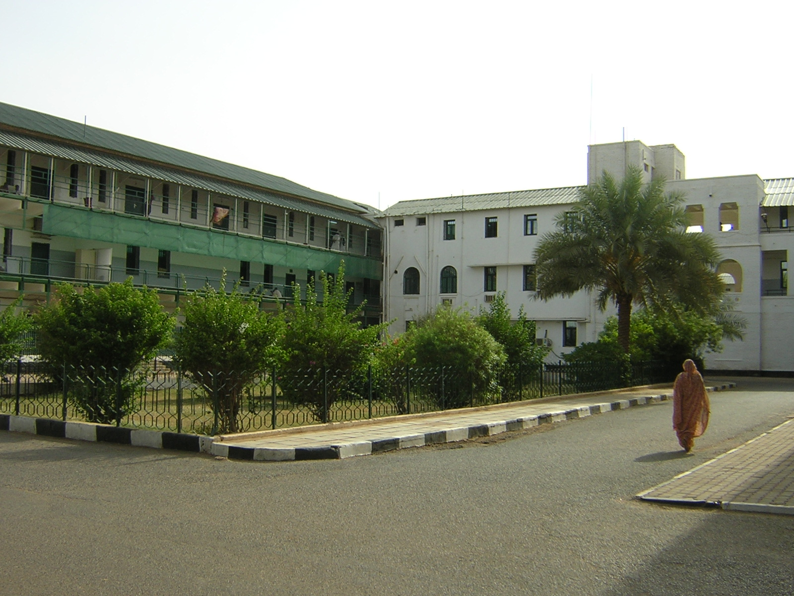 Khartoum Teaching Hospital, Khartoum, Sudan.